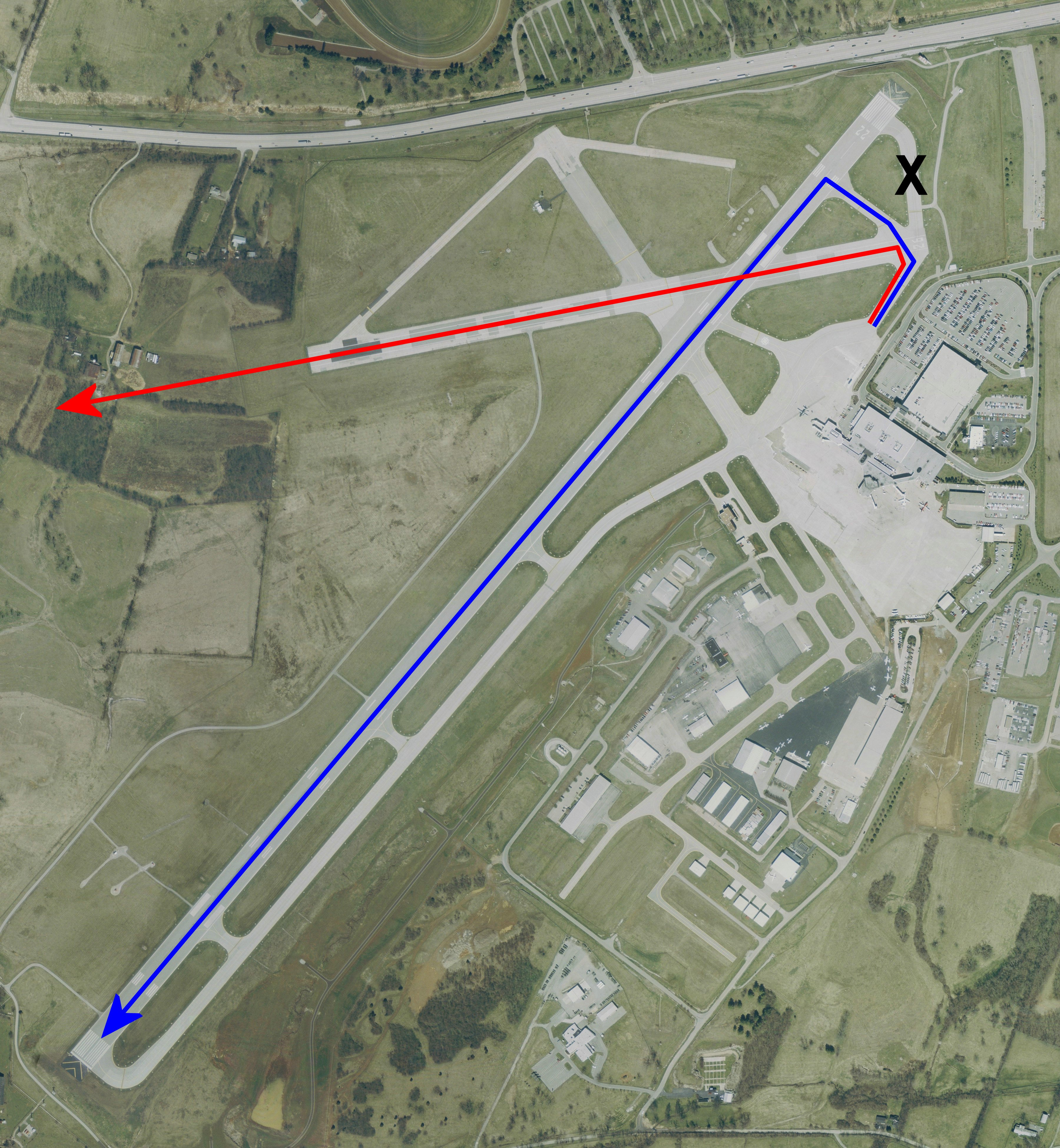 USGS urban ortho of Blue Grass Airport, Kentucky, USA. Overlayed with intended route vs actual route and approx crash site. X denotes the taxiway that was closed following recent construction. Desired path via Rwy 22 Actual path via Rwy 26, ending at approximate crash site. X marks the closed taxiway